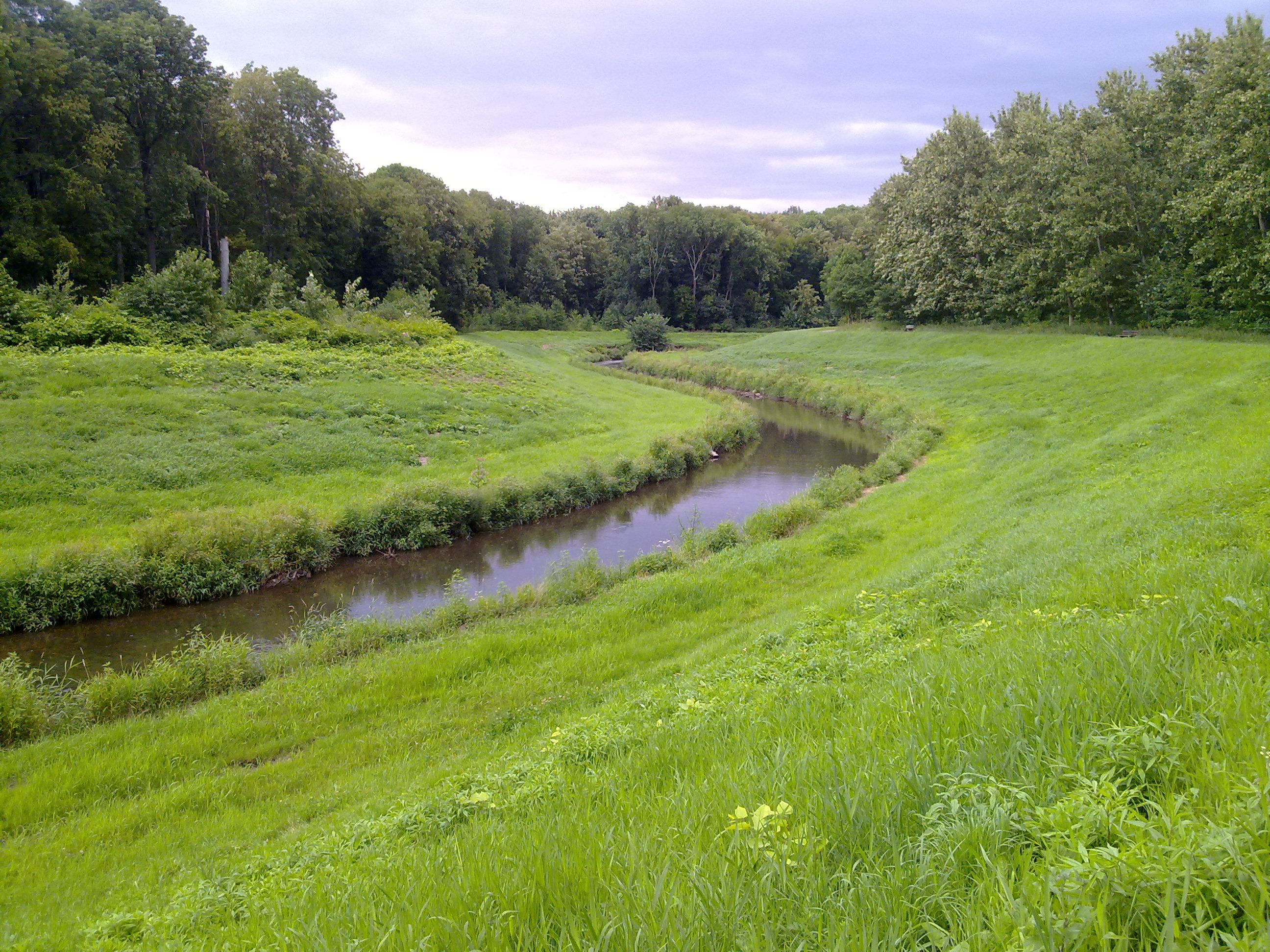 The Nahle river in Leipzig, near the Gustav-Esche-Street